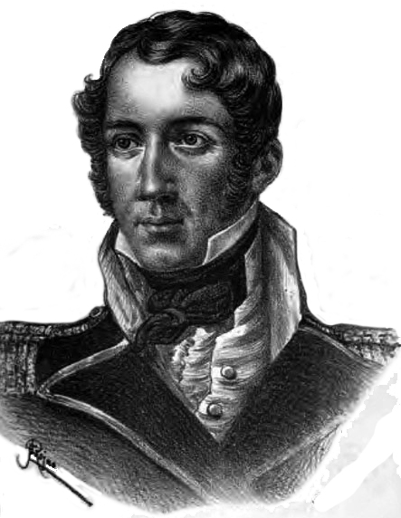 Thomas Alexander Cochrane, X conde de Dundonald, marqués de Maranhão (Annsfield cerca de Hamilton, 14 de diciembre de 1775 – Londres, 31 de octubre de 1860), conocido como Lord Cochrane.[1] Fue un político radical, oficial e innovador naval británico. Considerado como uno de los capitanes británicos más audaces y exitosos de las guerras de la revolución francesa, lo que llevó a los franceses a apodarlo "le loup des mers" (el lobo de los mares). Después de ser dado de baja de la marina británica, sirvió en las marinas de Chile, Brasil y Grecia..